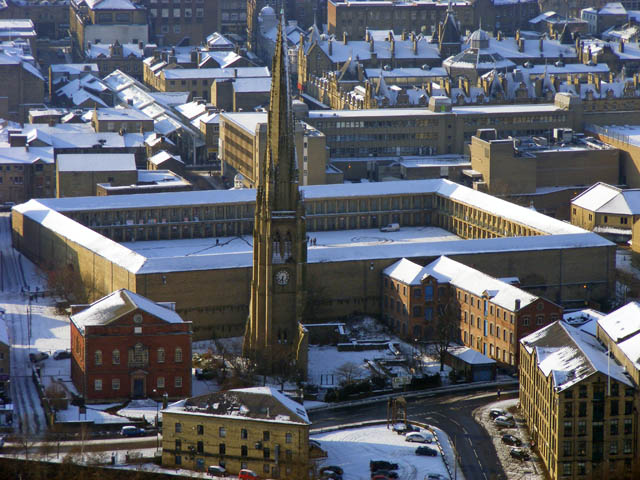 The Piece Hall and Square Chapel from Beacon Hill In front of the Piece Hall are Square Chapel - now an arts centre -and the spire of Square Church.